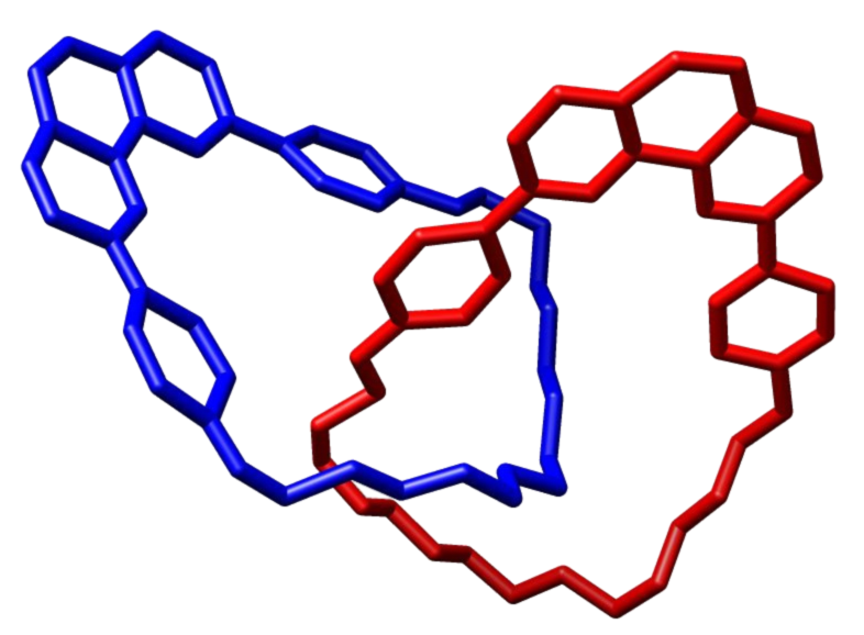 This is a picture generated from crystal structure data reported by M. Cesario, C. O. Dietrich-Buchecker, J. Guilhem, C. Pascard and J. P. Sauvage in the Journal of the Chemical Society, Chemical Communications, Year 1985, Pages 244-247. It shows a catenane. It was made by myself and is free to be used by all.